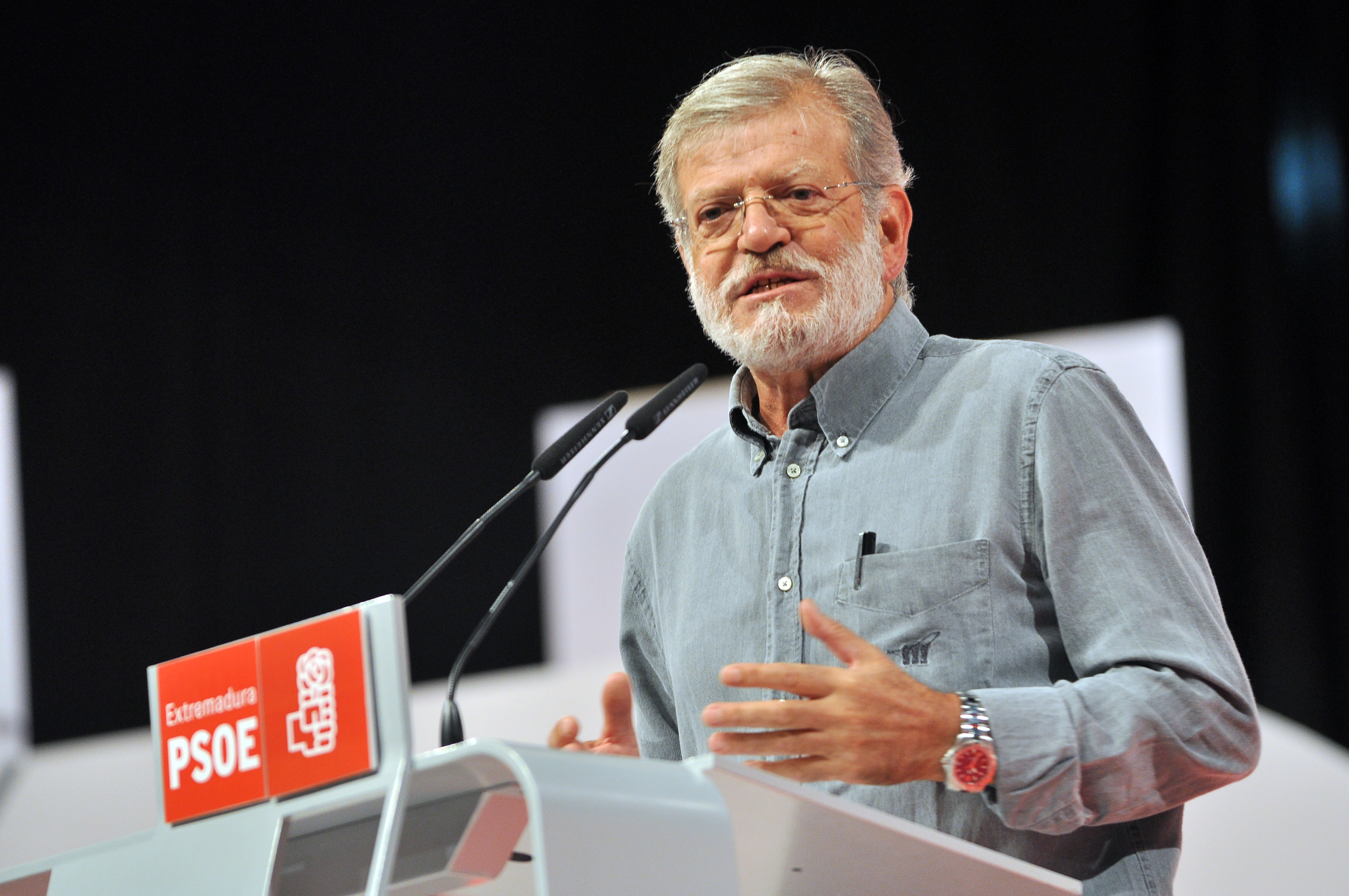 I Conf Pol PSOE (54)